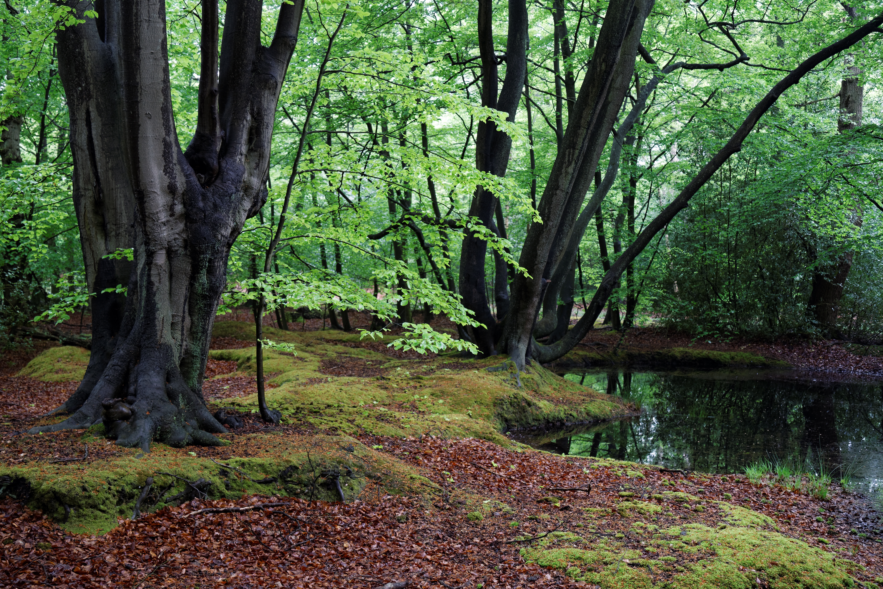 A spring pond and mossy banks at the side of Wake Road at High Beach (alternatively High Beech) in Epping Forest and the civil parish of Waltham Abbey, Essex, England.Camera: Canon EOS 6D with Canon EF 24-105mm F4L IS USM lens.Software: large RAW file lens-corrected, optimized and downsized with DxO OpticsPro 10 Elite, Viewpoint 2, and Adobe Photoshop CS2.